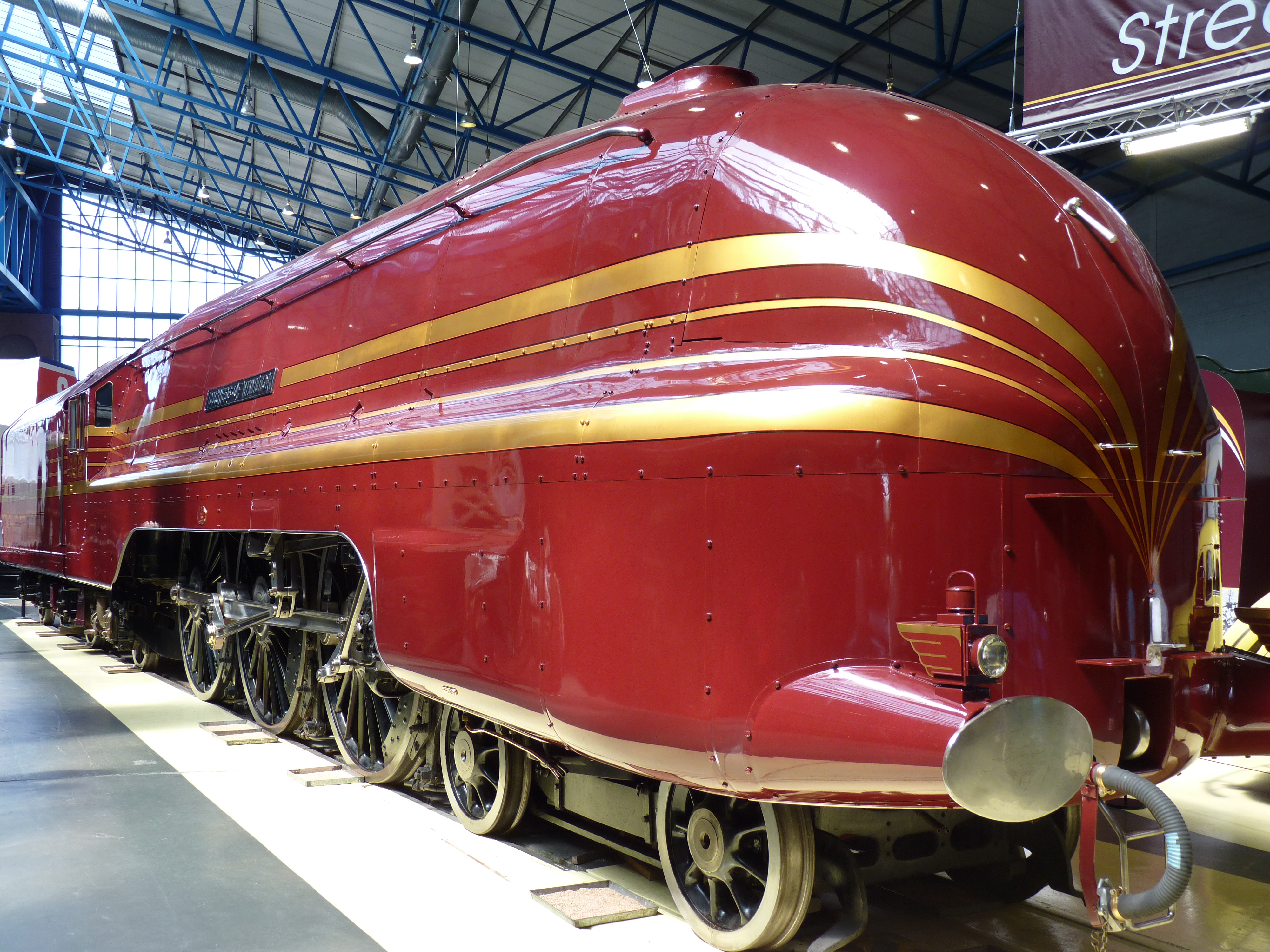 Number 6229 Duchess of Hamilton in york